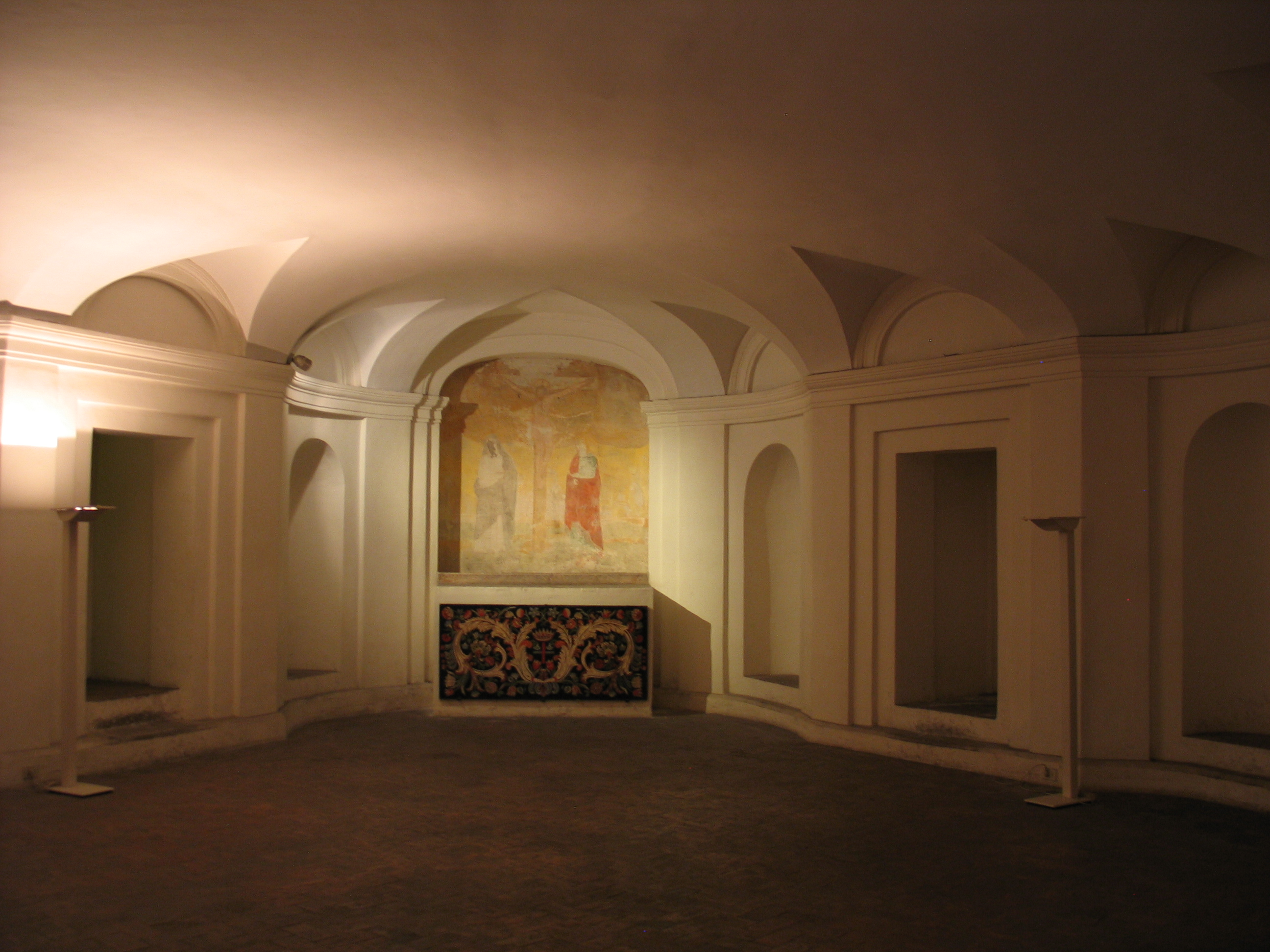 Crypt of San Carlo alle Quattro Fontana in Rome. Church was designed by Fransesco Borromini and build between 1638 and 1641. On this side of the crypt we see a fresco of Jesus crucified with the Virgin Mary and John the Baptist.